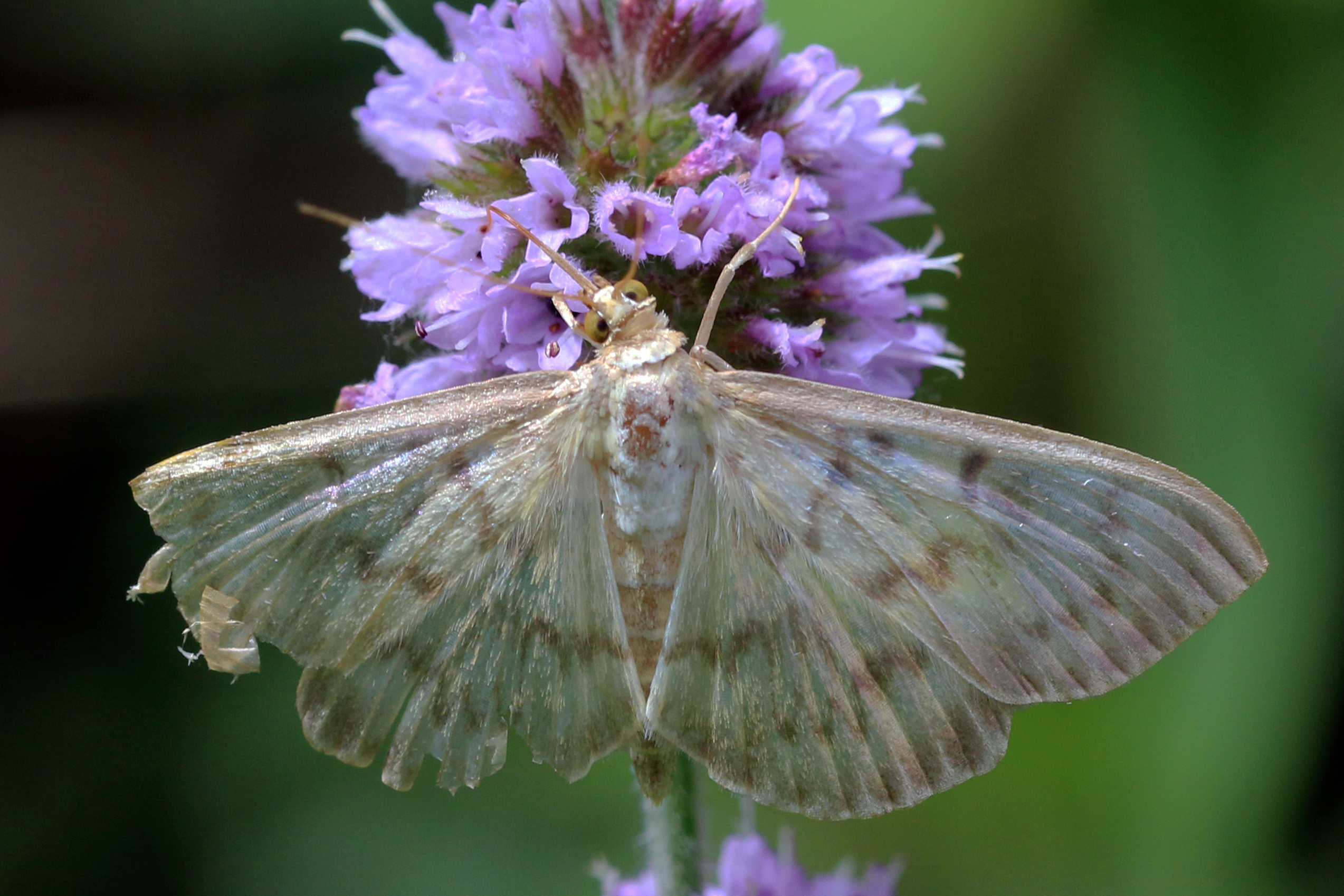 Mother of pearl moth (Pleuroptya ruralis), Otmoor, Oxfordshire